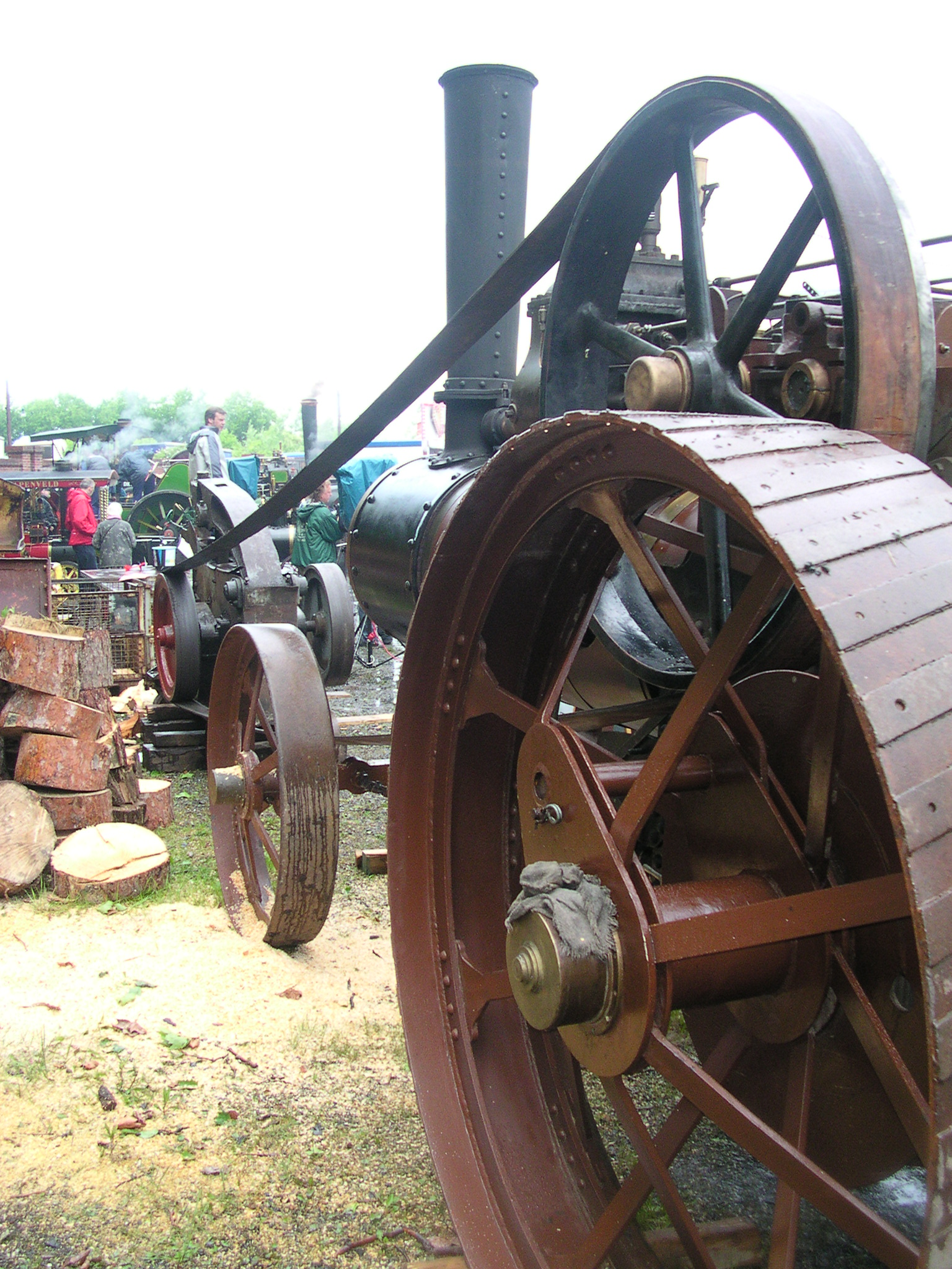 5th steam festival in Bochum, Germany 2007. Model of a Fowler traction machine built 1896 in Magdeburg